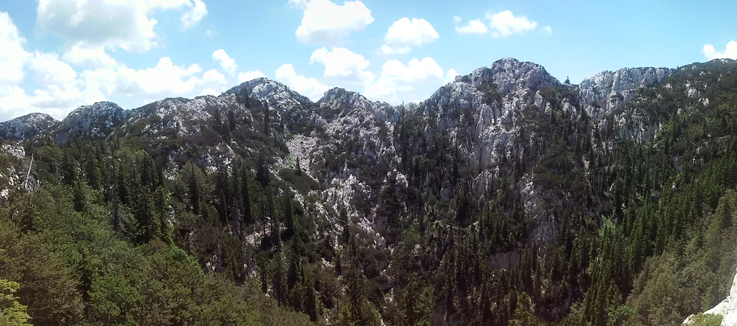 Rožanski kukovi at natioanl park North Velebit